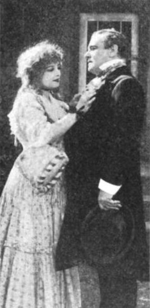 Photograph scanned from June 1915 issue of Overland Monthly. Shown is actress Beatriz Michelena as Lily and actor Andrew Robson as Jack Hamlin in a publicity still made for the 1915 film Lily of Poverty Flats.